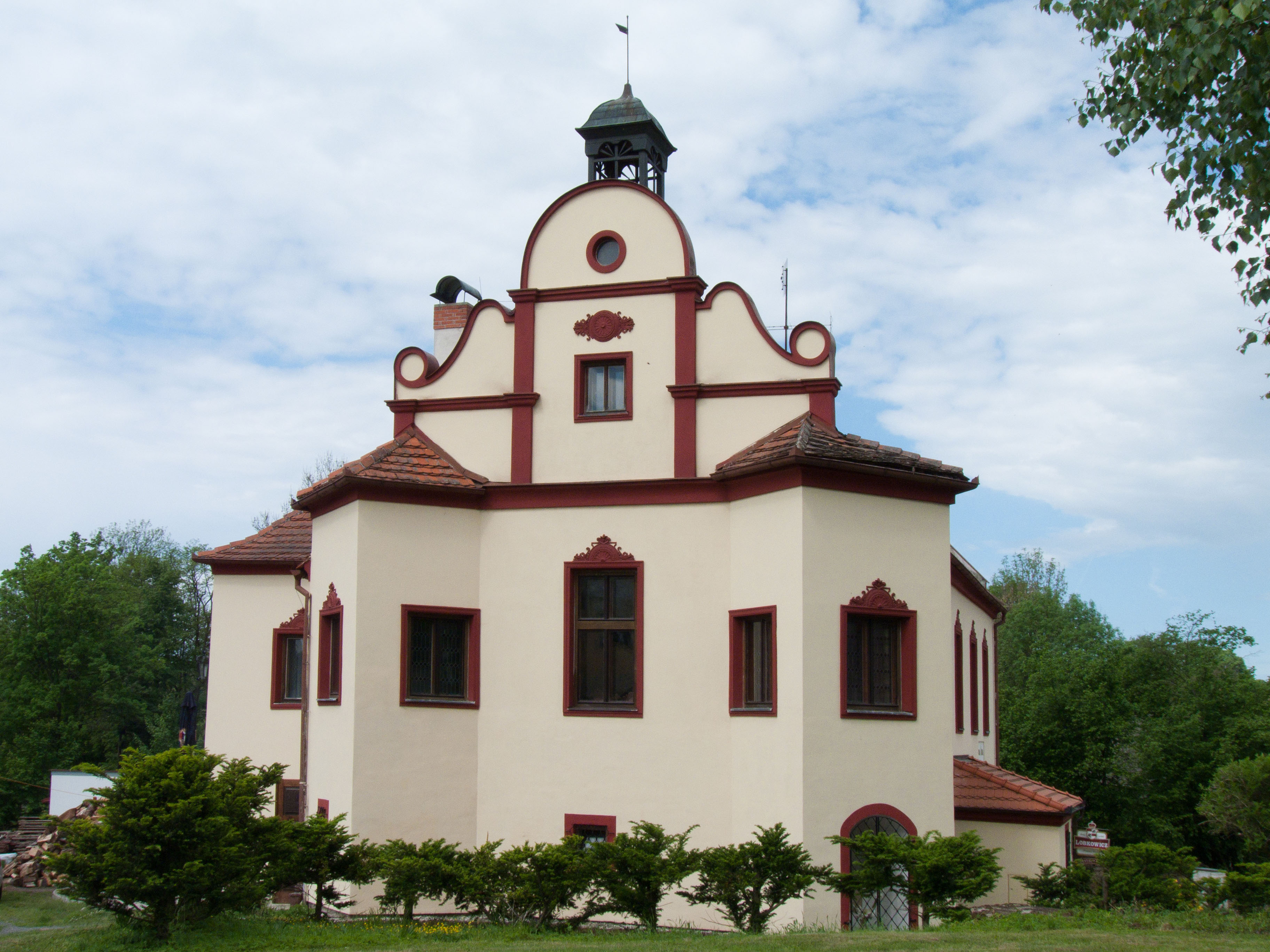 Front of the castle, originally a fort, now house No 1 in the village of Brandlín, part of Tučapy, Tábor District, Czech Republic.